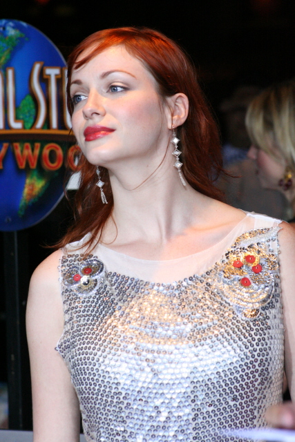 Christina Hendricks Sep 22, 2005. Serenity Red Carpet Premiere at Universal City in LA.